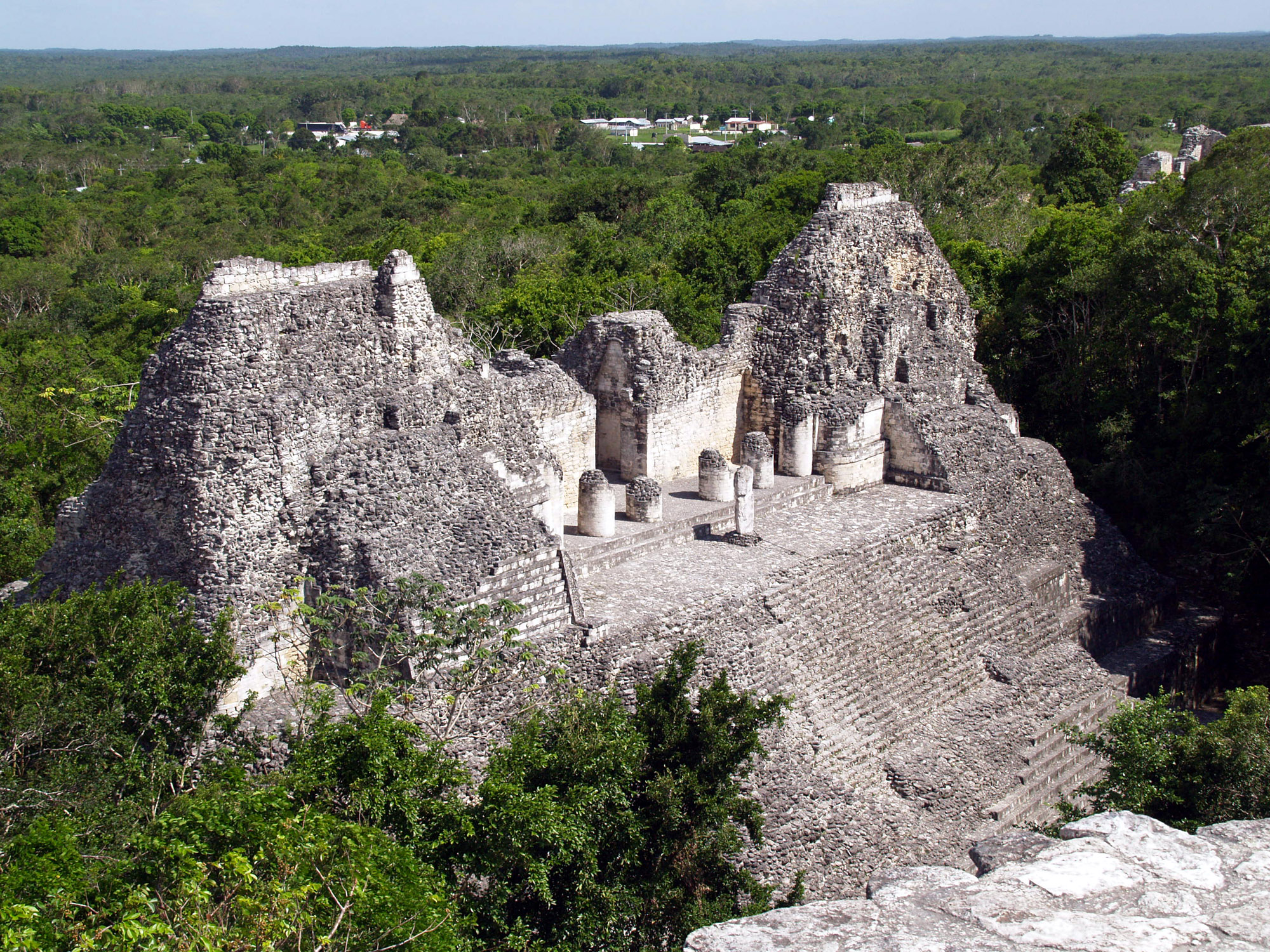 Structure VIII, Site of Becán, Campeche, Mexico